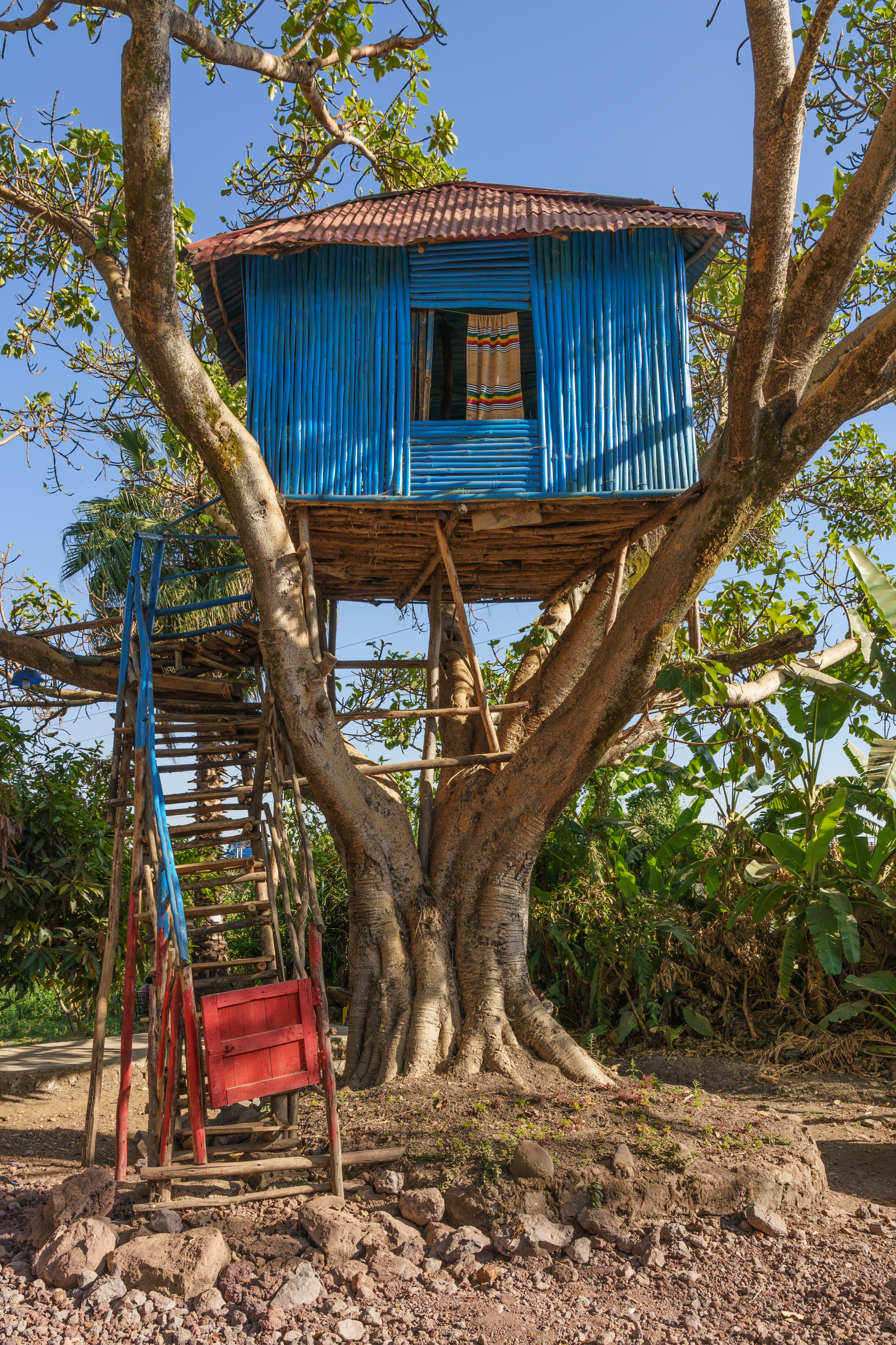 Tree house at Blue Nile River in Bahir Dar, Ethiopia